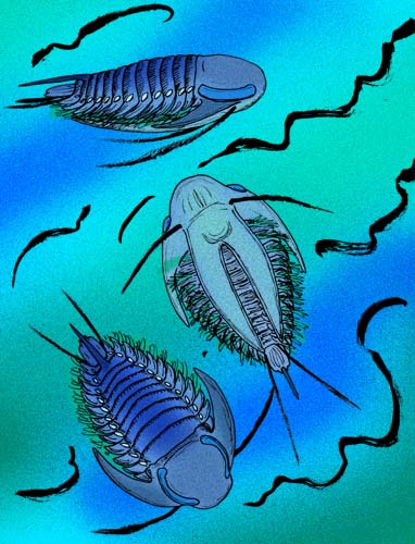 Reconstruction of the remopleurid asaphid trilobite, Hypodicranotus striatulus, of Middle Ordovician New York and Ontario